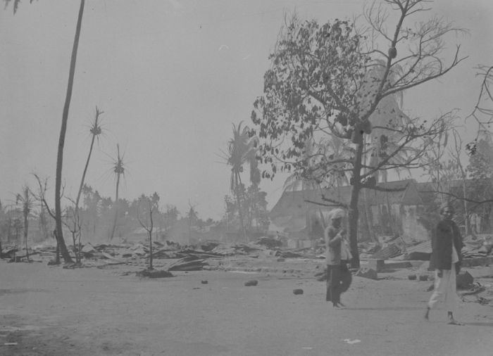 Havoc after a fire in Sibolga